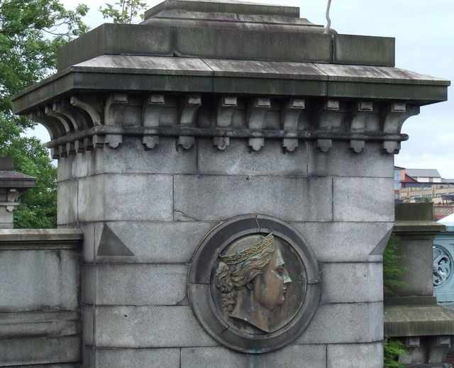 Albert Bridge detail. Queen Victoria carving on the south east side of the bridge. See also 943540.